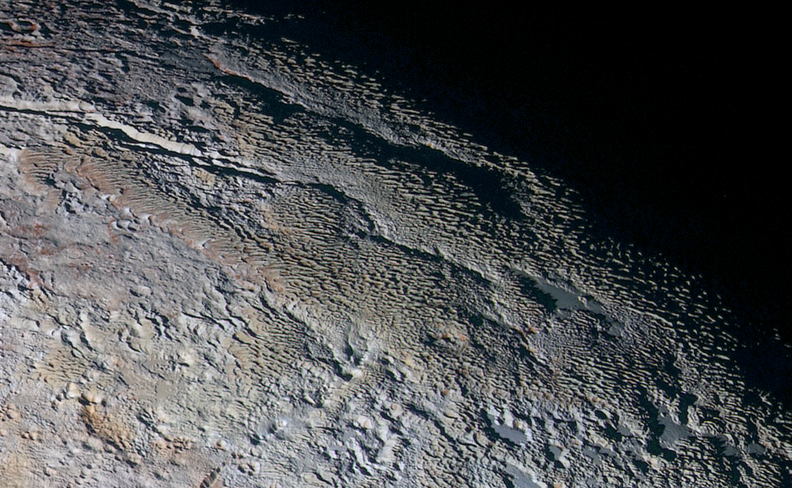 Original description: In this extended color image of Pluto taken by NASA's New Horizons spacecraft, rounded and bizarrely textured mountains, informally named the Tartarus Dorsa, rise up along Pluto's day-night terminator and show intricate but puzzling patterns of blue-gray ridges and reddish material in between. This view, roughly 330 miles (530 kilometers) across, combines blue, red and infrared images taken by the Ralph/Multispectral Visual Imaging Camera (MVIC) on July 14, 2015, and resolves details and colors on scales as small as 0.8 miles (1.3 kilometers).